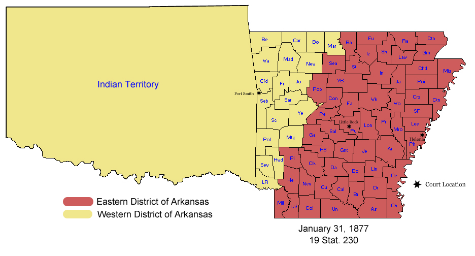 Arkansas districts - 1877